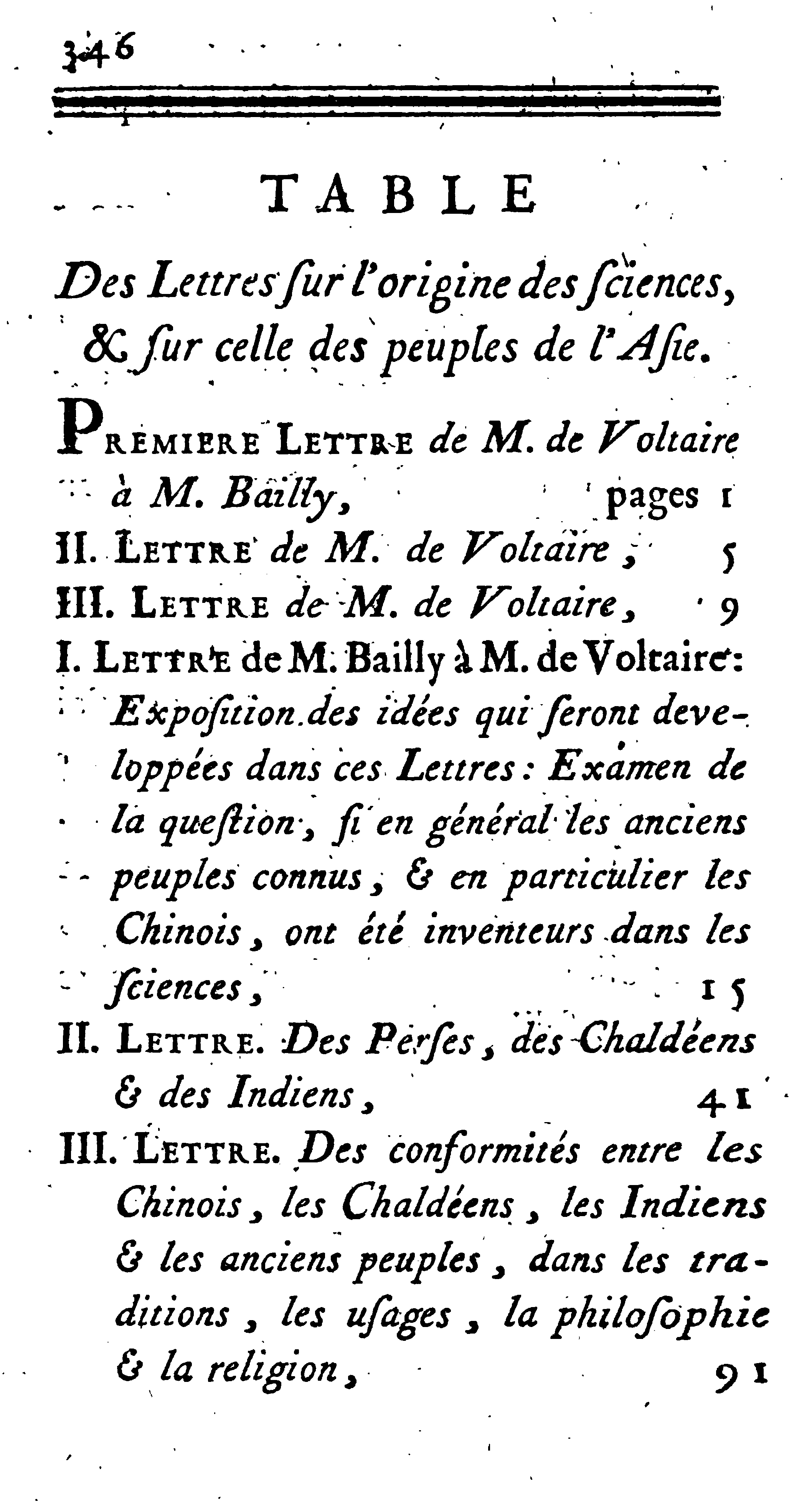 Index of the "Lettres sur l'origine des sciences" by Jean Sylvain Bailly.